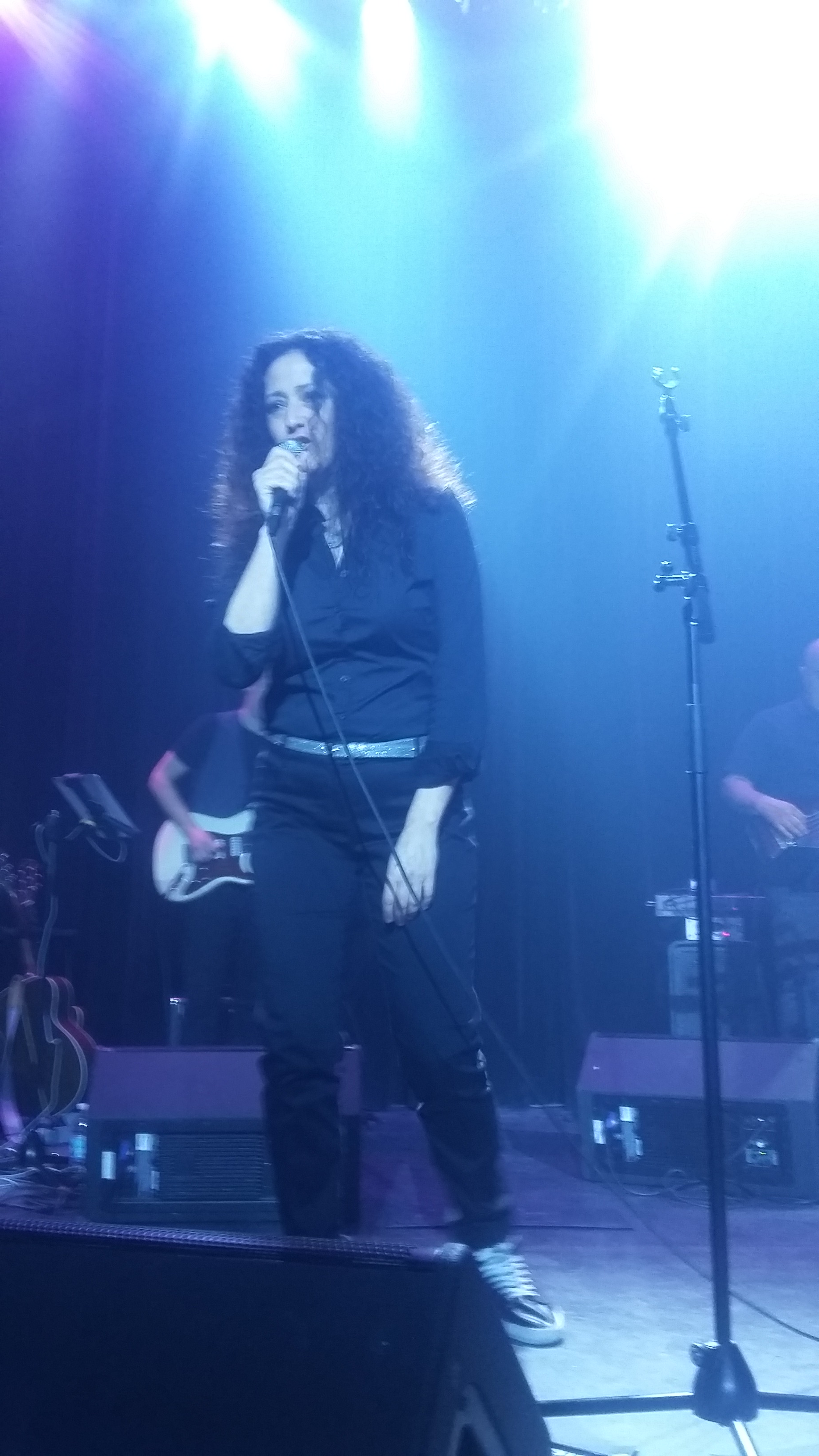 Manon D'Inverness photographed in Montreal, Quebec, Canada at the théâtre Plaza.